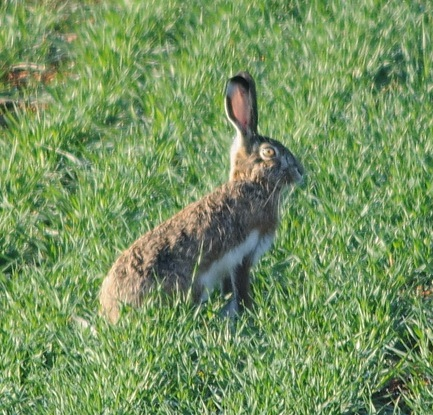 Iberian hare (Lepus granatensis)